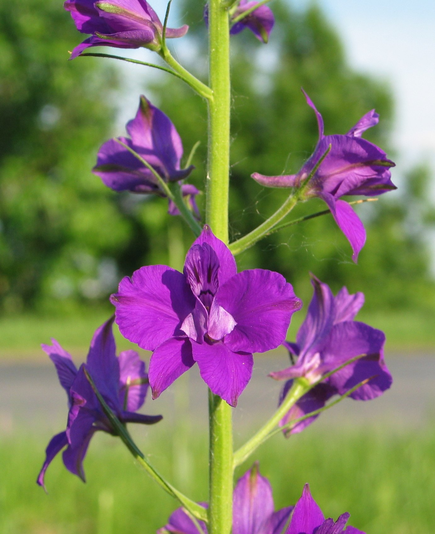 Consolida orientalis by the roadside, 2005-05-26, Algyő, Hungary